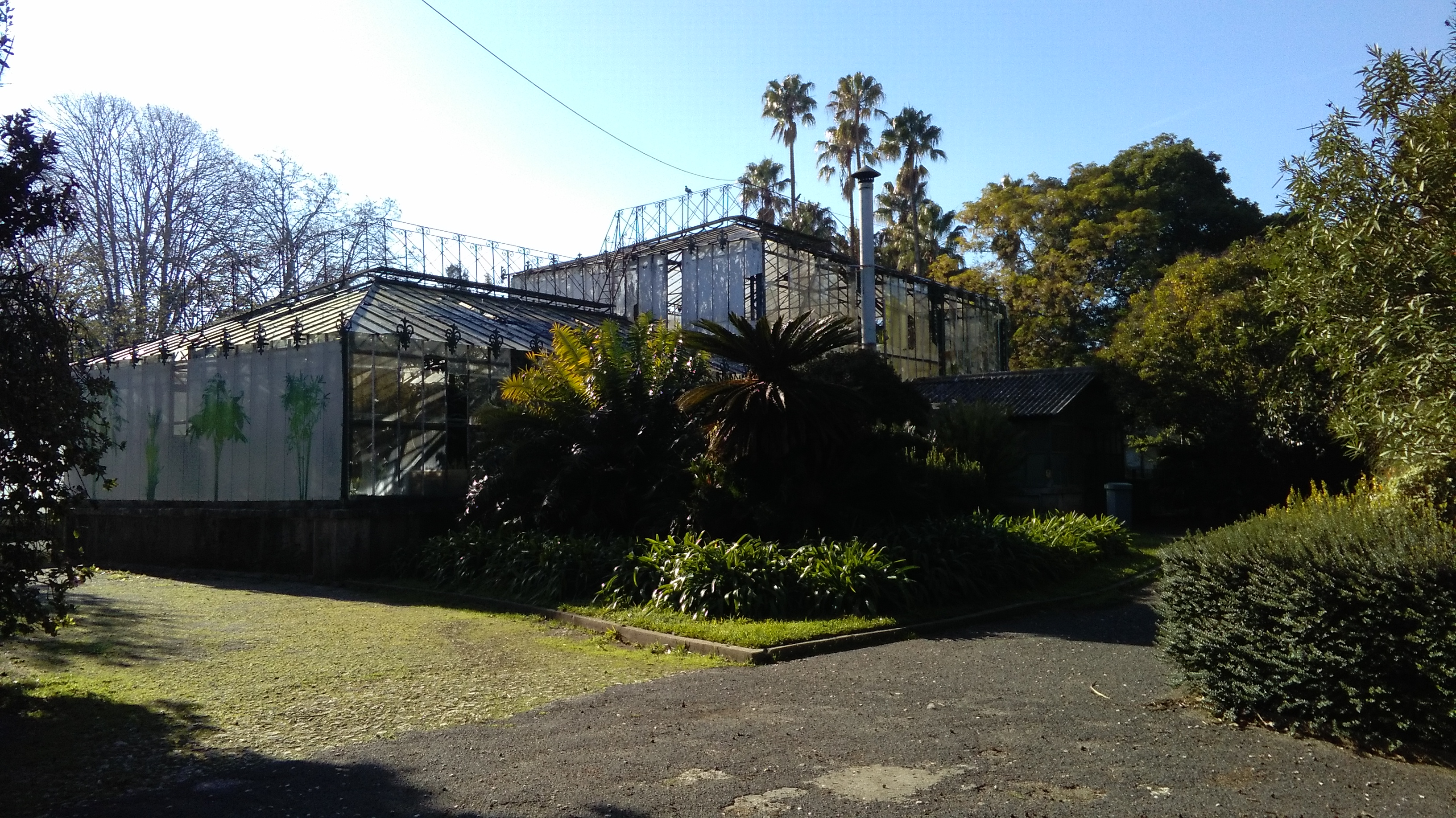 Main greenhouse, built in 1914, in the Botanical Tropical Garden in Lisbon, Portugal.